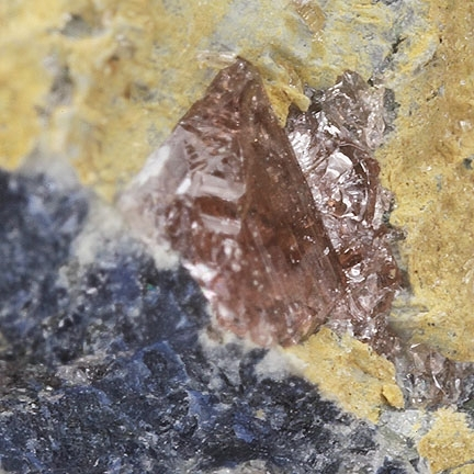 Wolfeite Locality: Palermo No. 1 Mine, Groton, Grafton County, New Hampshire, USA (Locality at ) Dimensions: 4.7 cm x 2.7 cm x 1.8 cm A nice reference specimen from the Palermo No. 1 Mine featuring red-brown to dark brown wolfeite on matrix from the type locality. This phosphate was named after Dr. Caleb Wroe Wolfe, a crystallographer and professor of geology at Boston University.